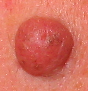 A mole. David Benbennick took this photograph today, March 14, 2005.